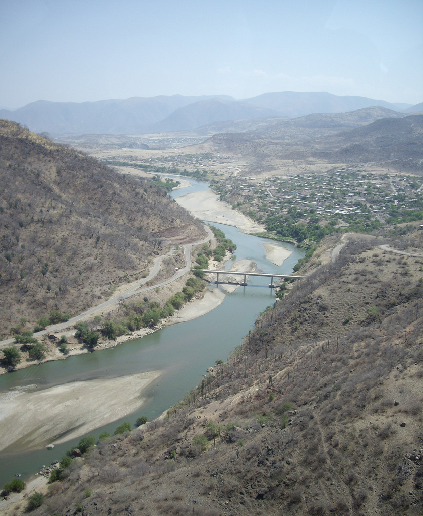 (Original Description in Flickr): On the way from Acapulco to Mexico City.